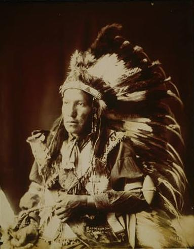 Bad Wound (Sioux), half-length portrait, facing left, wearing war bonnet.